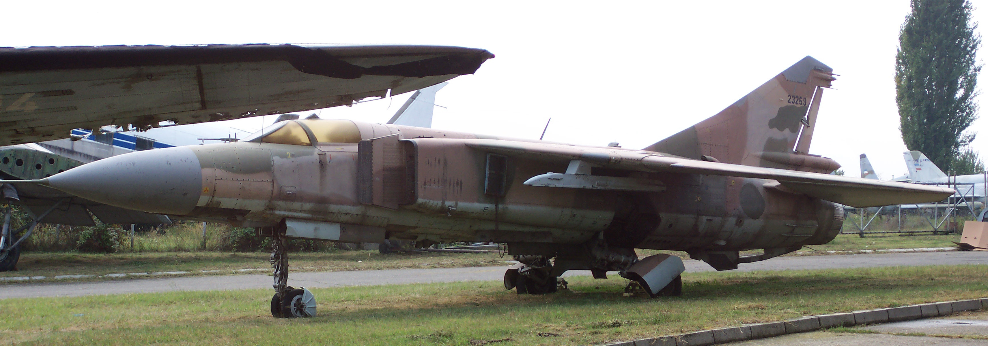 MiG-23MLA of the Iraqi Air Force, in the Museum of Yugoslav Aviation, Belgrade